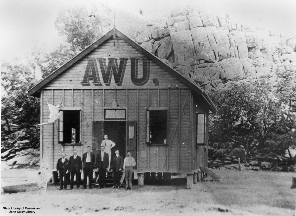 Australian Workers' Union Hall, Chillagoe, Queensland, ca. 1915 Members of the Australian Workers' Union in front of the A.W.U. Hall at Chillagoe, around 1915. A large rock formation can be seen at the rear of the image.